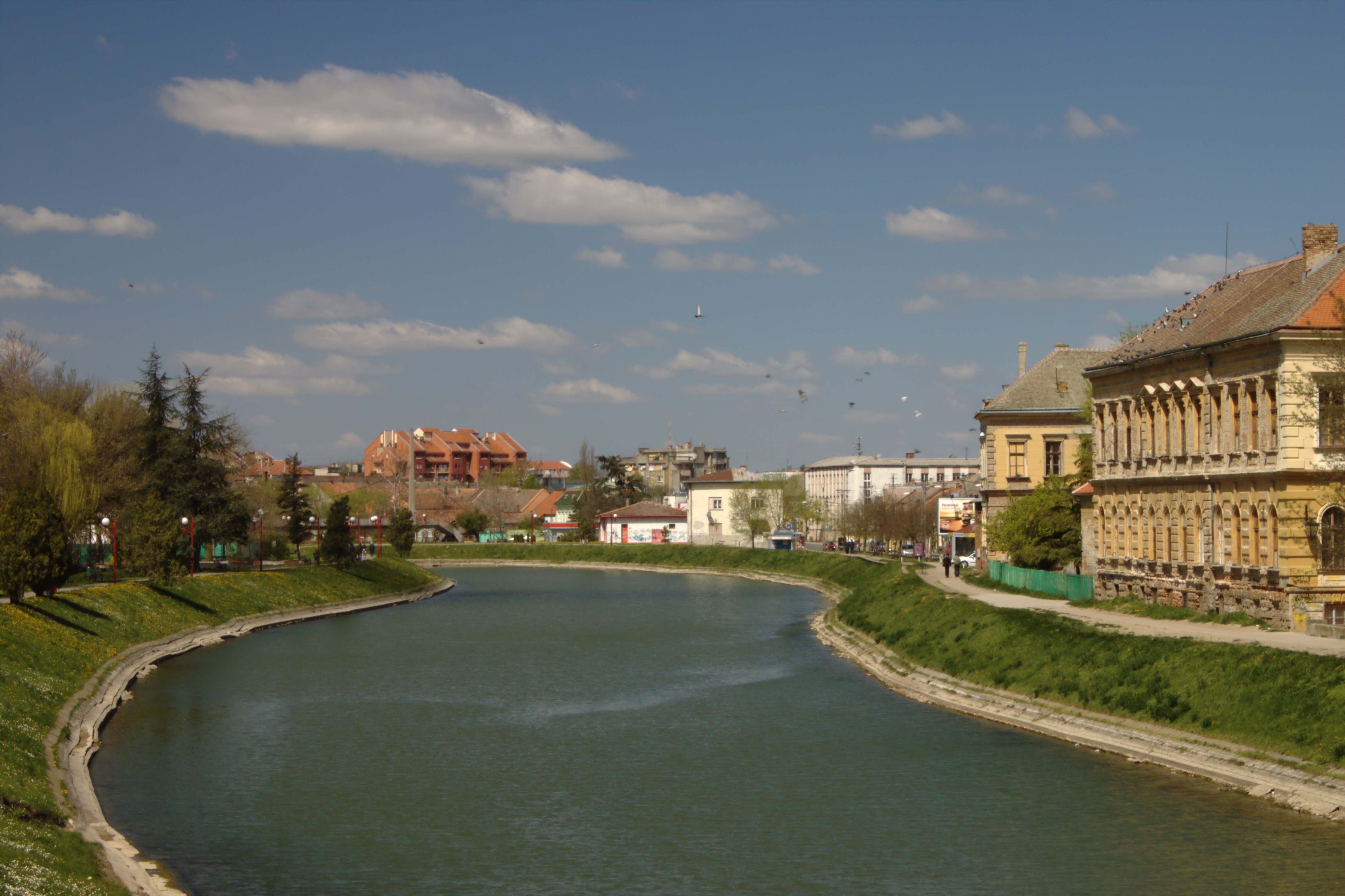 A lake created by relocating of the Begej River in Zrenjanin, Serbia